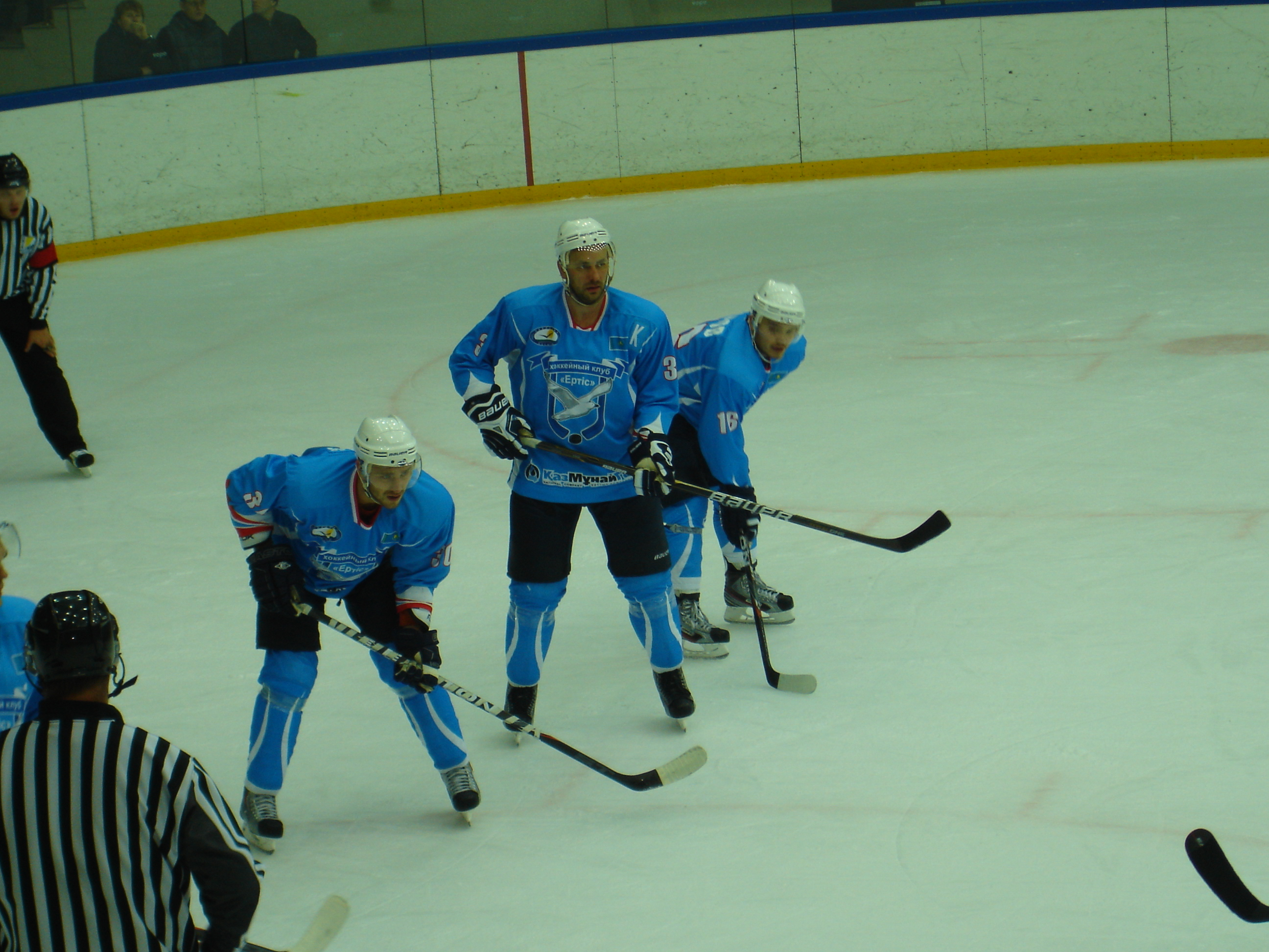 Ice hockey stadium Astana, Pavlodar, Kazakhstan. View at the ice field during the Yertis-Arystan match, September 24, 2011. Fragment of the match.